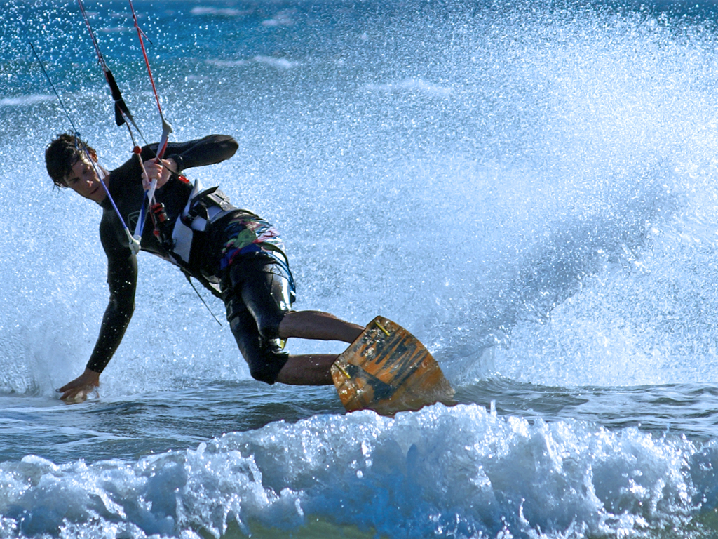 Kitesurfer making a turn